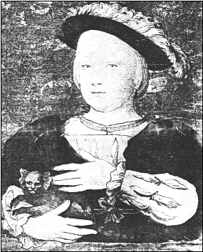 copy of the coloured chalk drawing by Holbein, original in Kunstmuseum, Basel, sometimes thought to be of Edward of Middleham or Henry Fitzroy, Duke of Richmond and Somerset, 16th century, son of King Henry VIII. of England and his mistress Elizabeth Blount